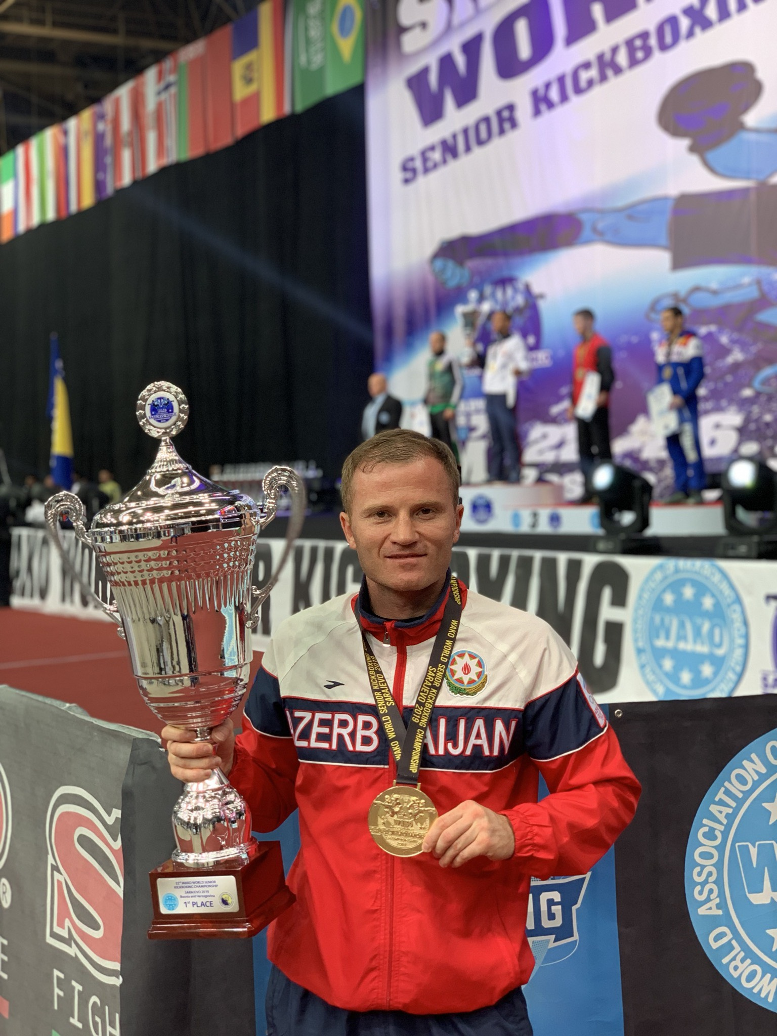 At the WAKO World Championships on October 26, 2019 in Sarajevo, the capital of Bosnia and Herzegovina